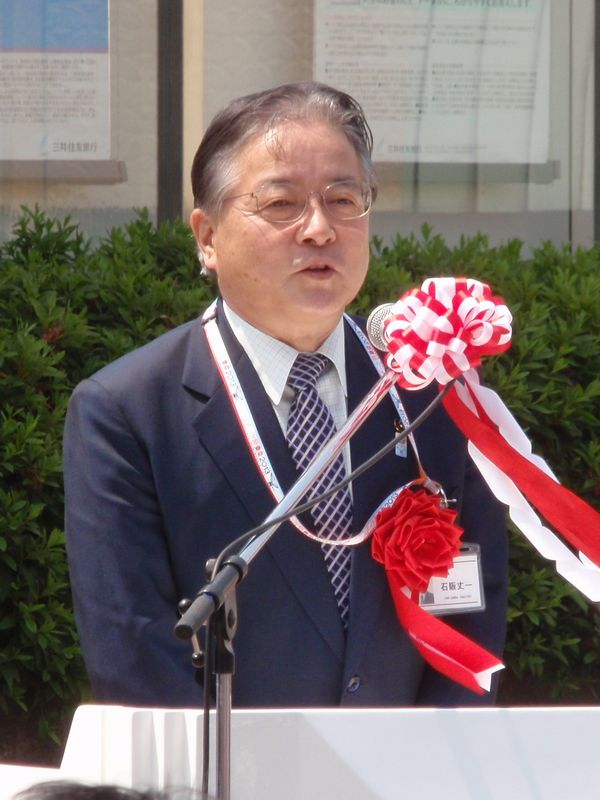 Joichi Ishizaka, Mayor in Machida city